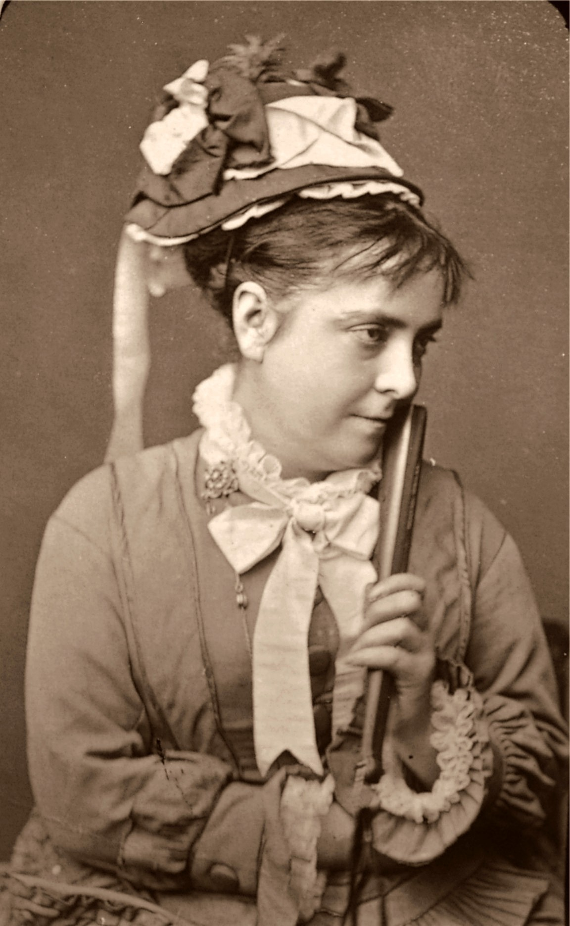 Bella Goodall, English Actress.